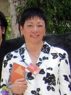 Selina Chow, former member of the Executive and Legislative Councils of Hong Kong, chairwoman of Liberal Party